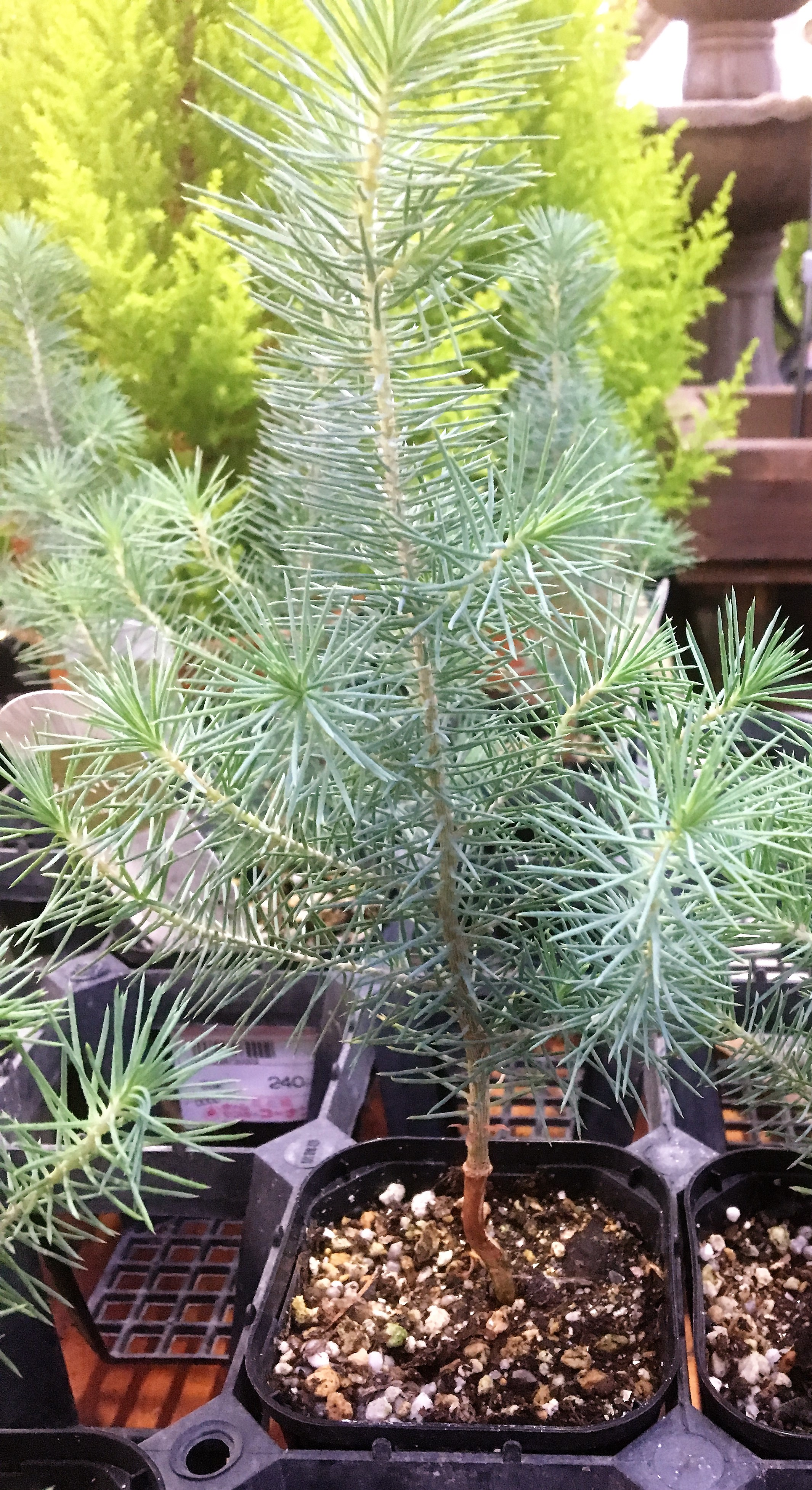 Pinus pinea (European nut pine) Seedling